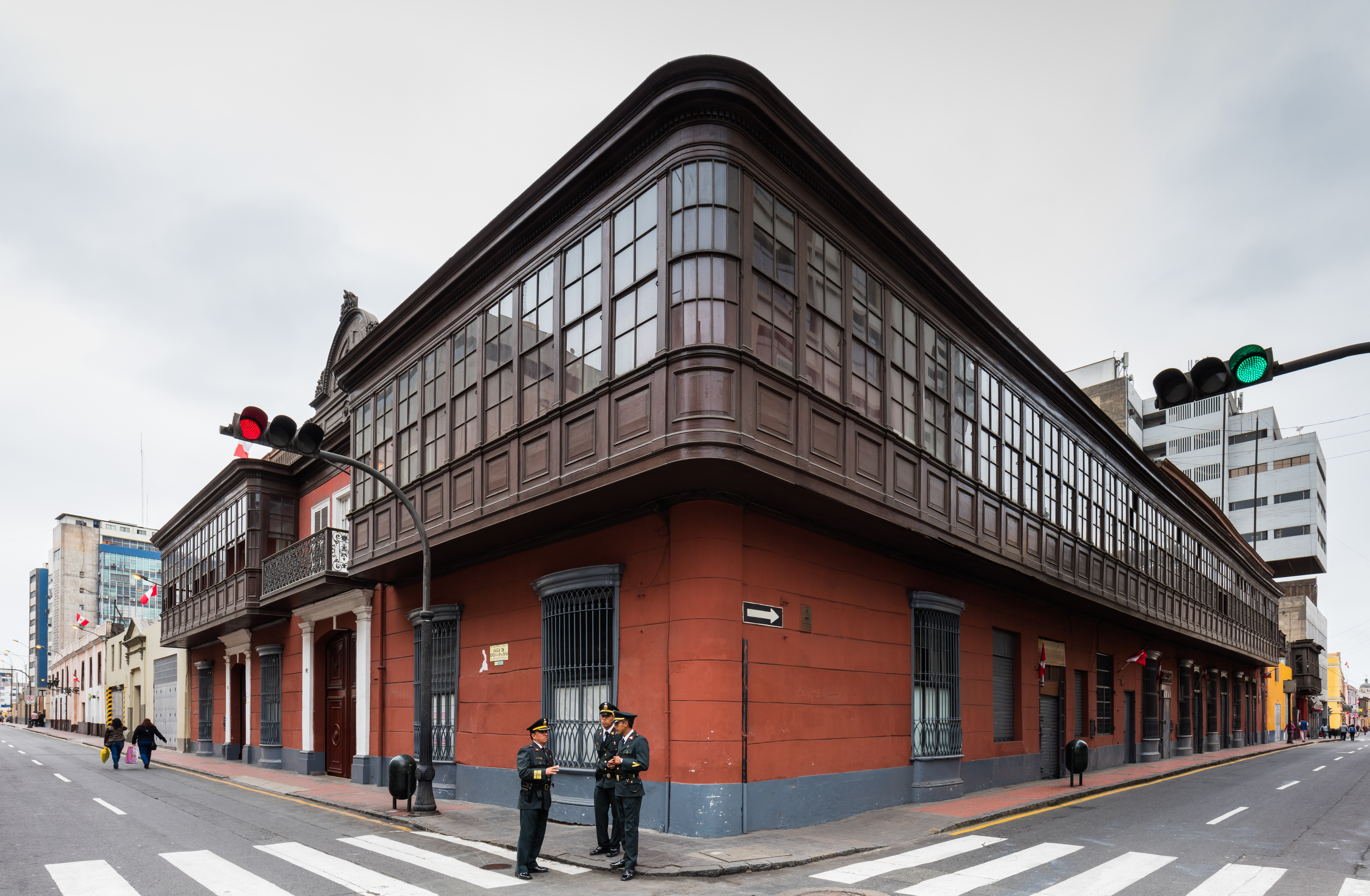 Building in the crossing of Miró Quesada and Azangro streets, Peru